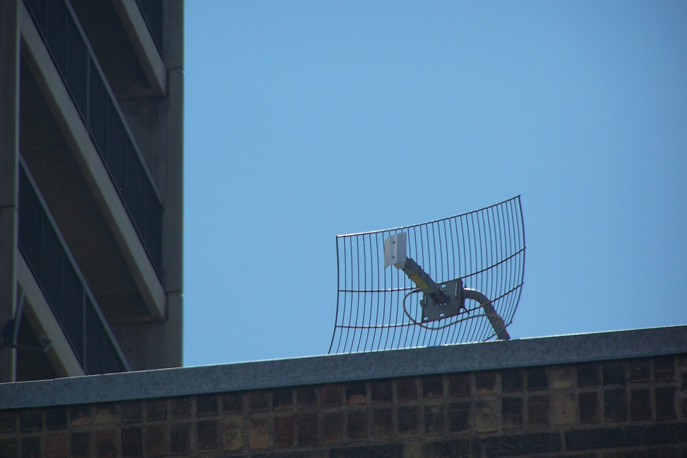 MMDS microwave antenna. MMDS (Multichannel Multipoind Distribution Service) is a technology for providing wireless internet service using C band (2 GHz) microwave links. This antenna is a parabolic antenna with a dipole feed that radiates a beam of vertically polarized microwaves. The wire grill reflector reflects radio waves as well as a solid metal dish, as long as the spacing between the wires is less than 1/10 wavelength and the wires are oriented parallel to the polarization of the waves, so wire mesh dishes are sometimes used to reduce weight and wind loading on the dish.